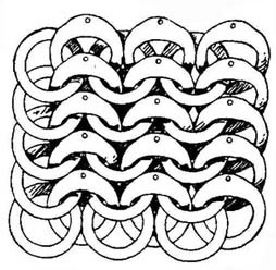 italian maglia ghiazzerina chainmail by Wendelin Boeheim confusing picture for living history begginers, who sometimes reconstructs it as "scale mail" - as mail armor were rings (shown in the picture as riveted) squashed to scales